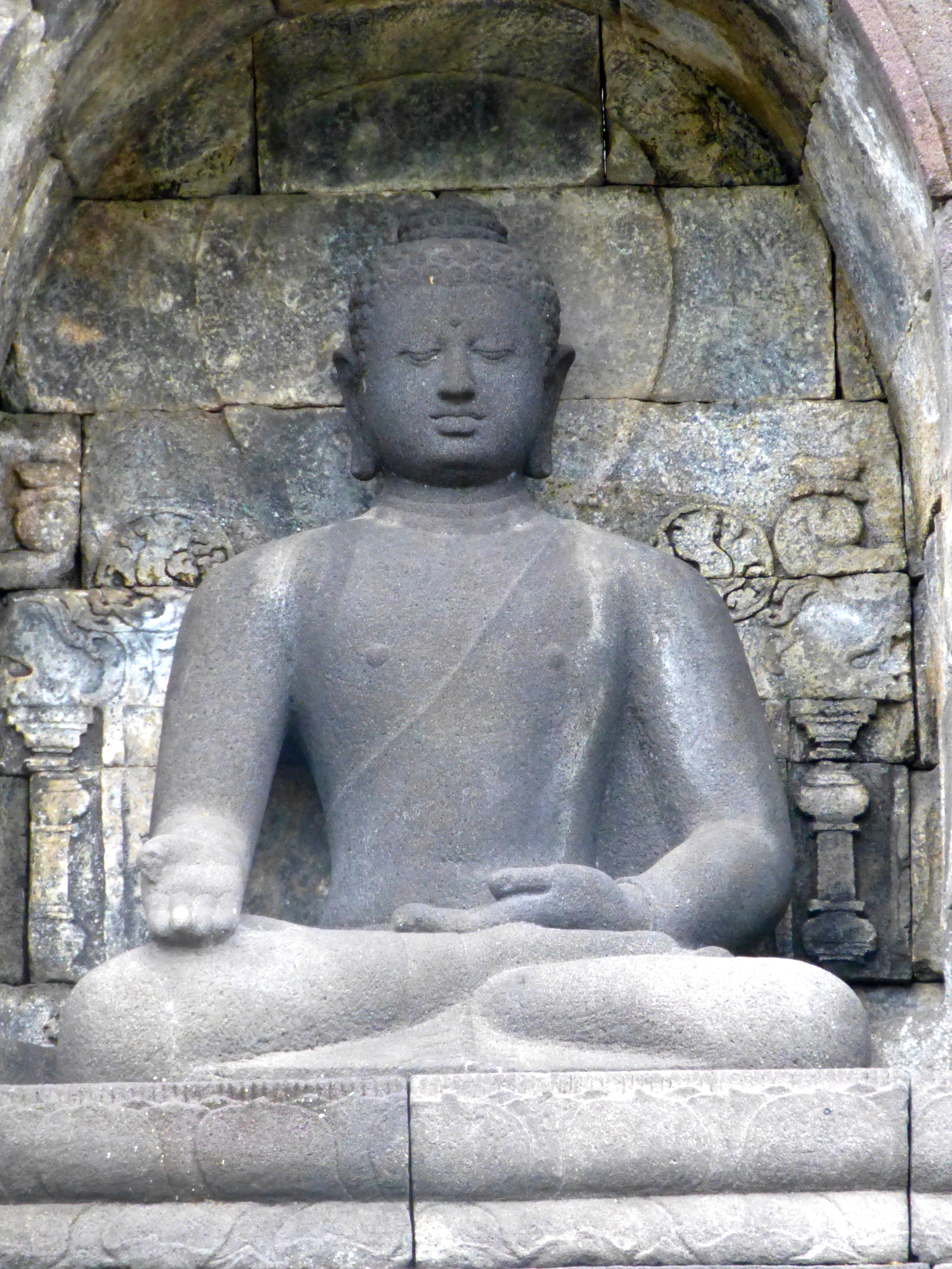 021 Vara Mudra, Ratnasambhava at Borobudur, Java Photograph of a Buddha statue at Borobudur in Java, Indonesia taken by Anandajoti.